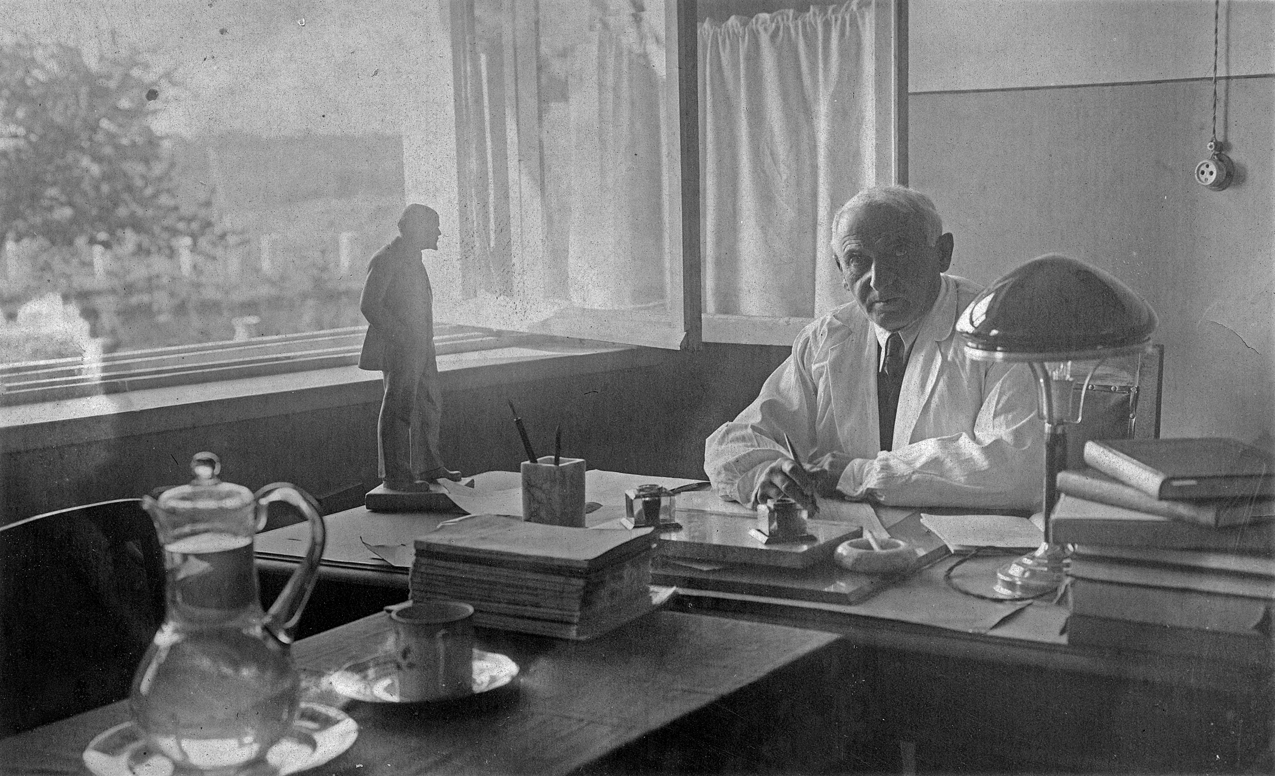 Grigor Saghyan in his cabinet in Dilijan Sanatorium